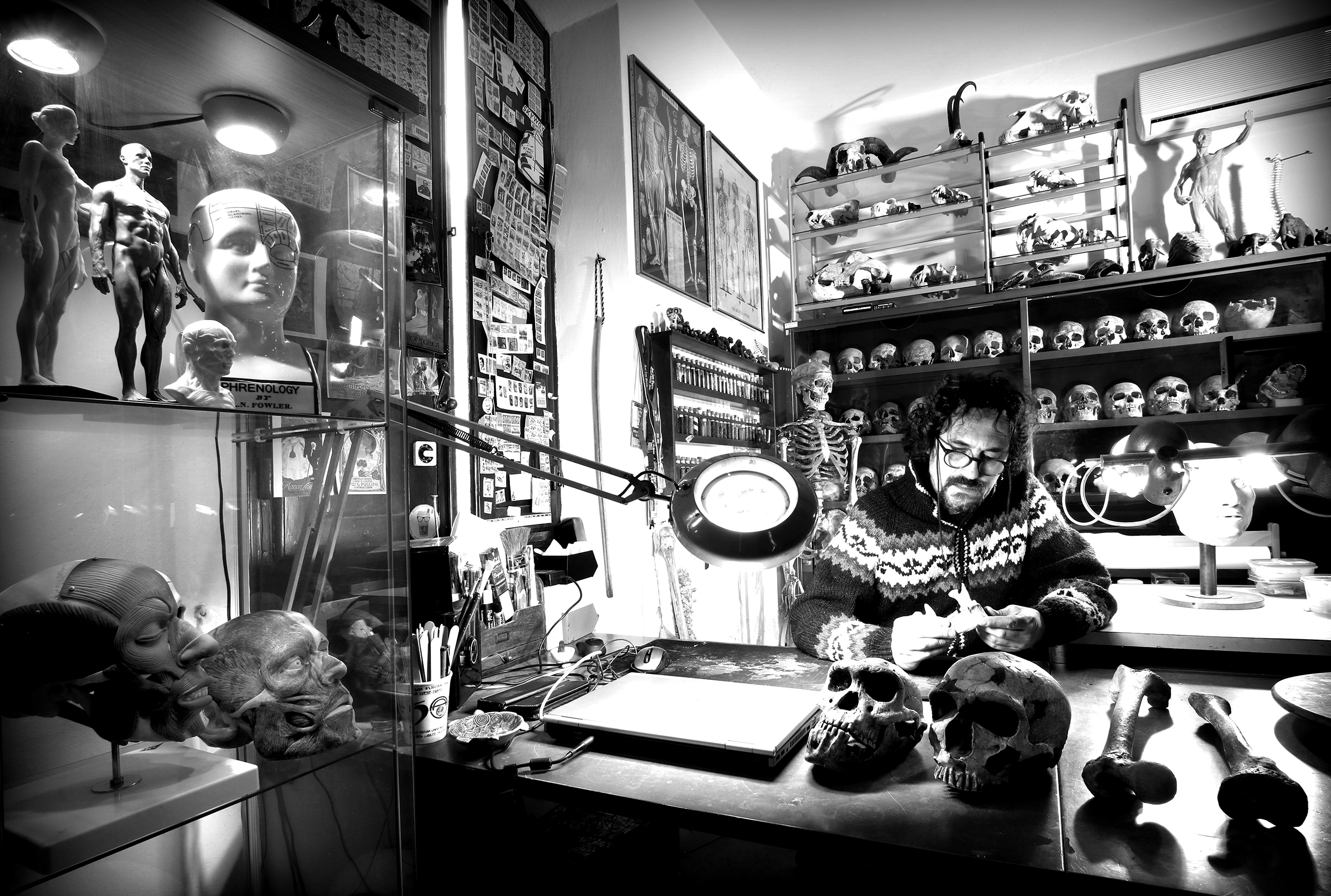 The office of the paleoanthropologist Stefano Ricci at the Research Unit in Prehistory and Anthropology, Department of Physical Sciences, Earth and Environment, University of Siena (Italy).